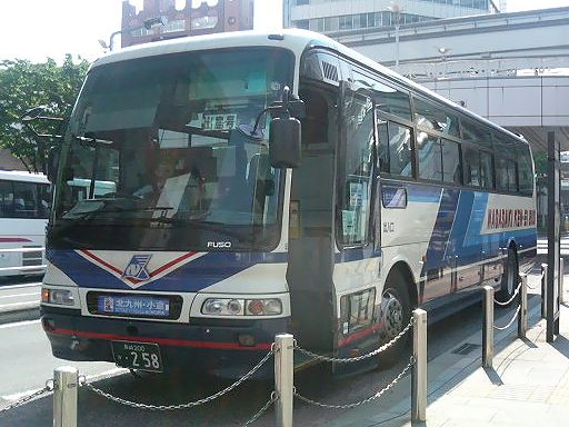 Nagasaki Ken-ei Bus. See below.